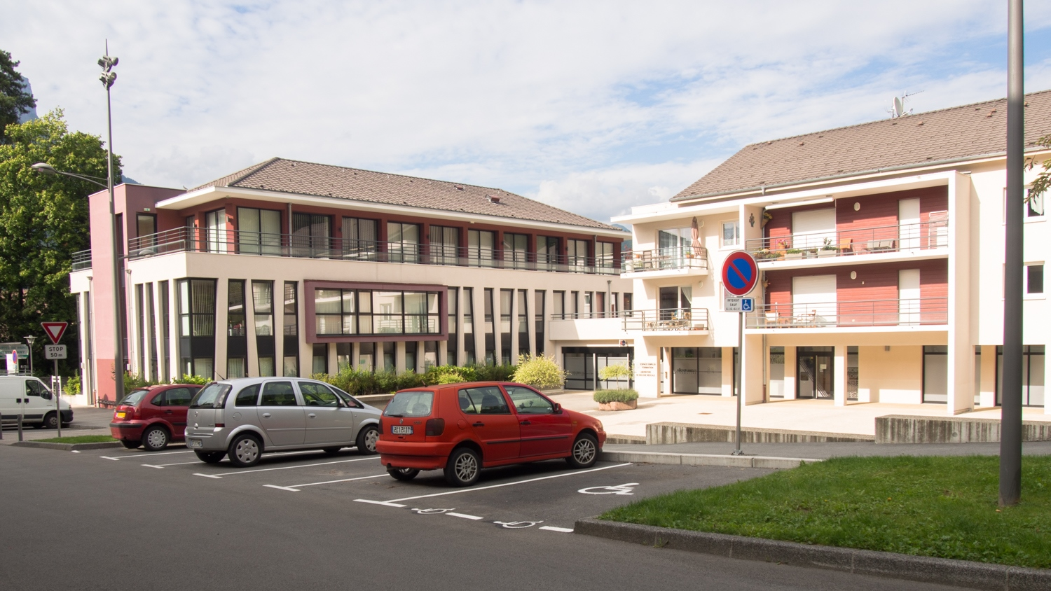 Sight of the medical tests laboratory of Faverges, in Haute-Savoie, France.